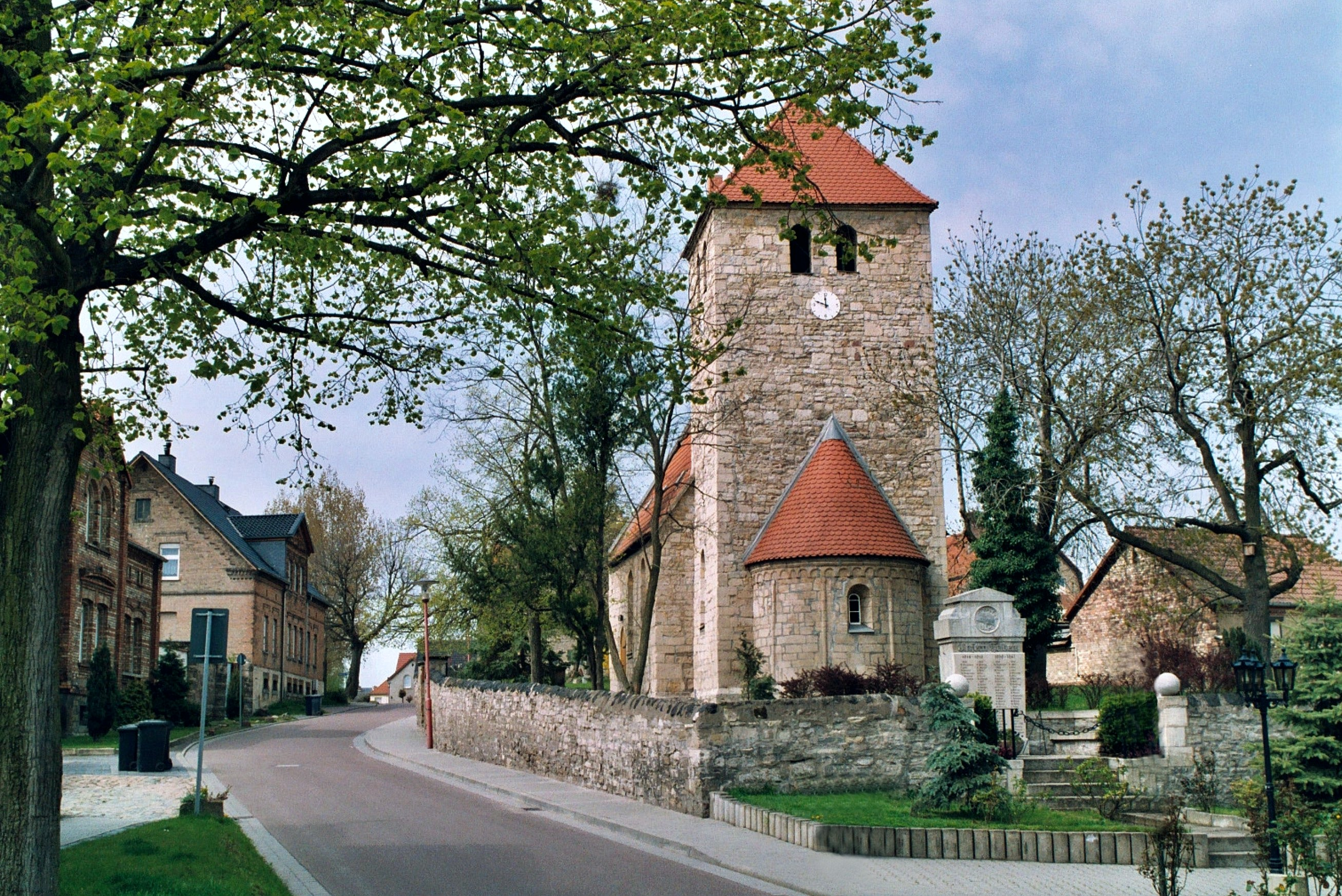 Amsdorf (Seegebiet Mansfelder Land), the village church